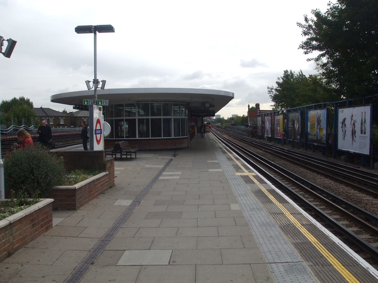 Kilburn tube station westbound platform looking east